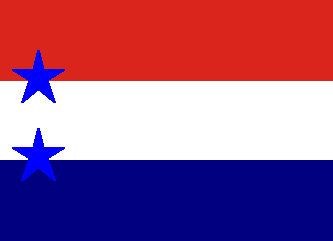 XXI Corps, 2nd Division Badge